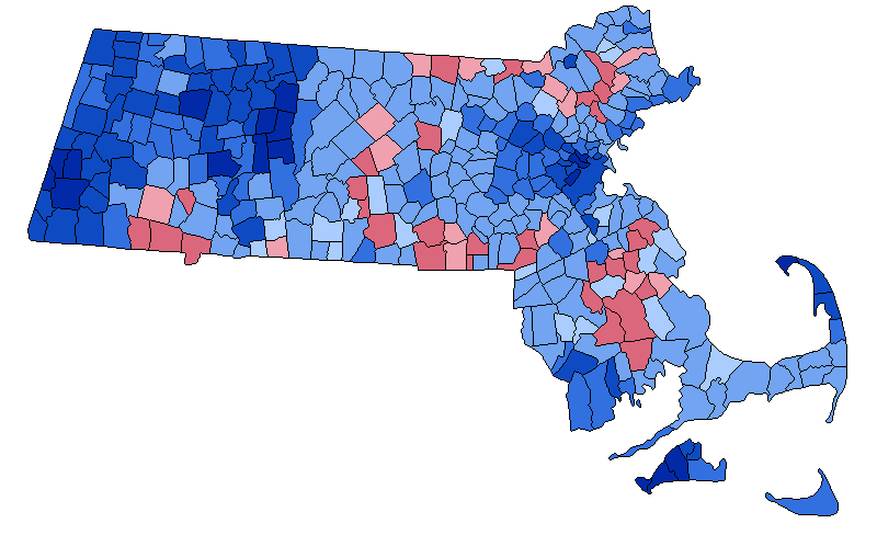 Massachusetts presidential election results by town, November 2008